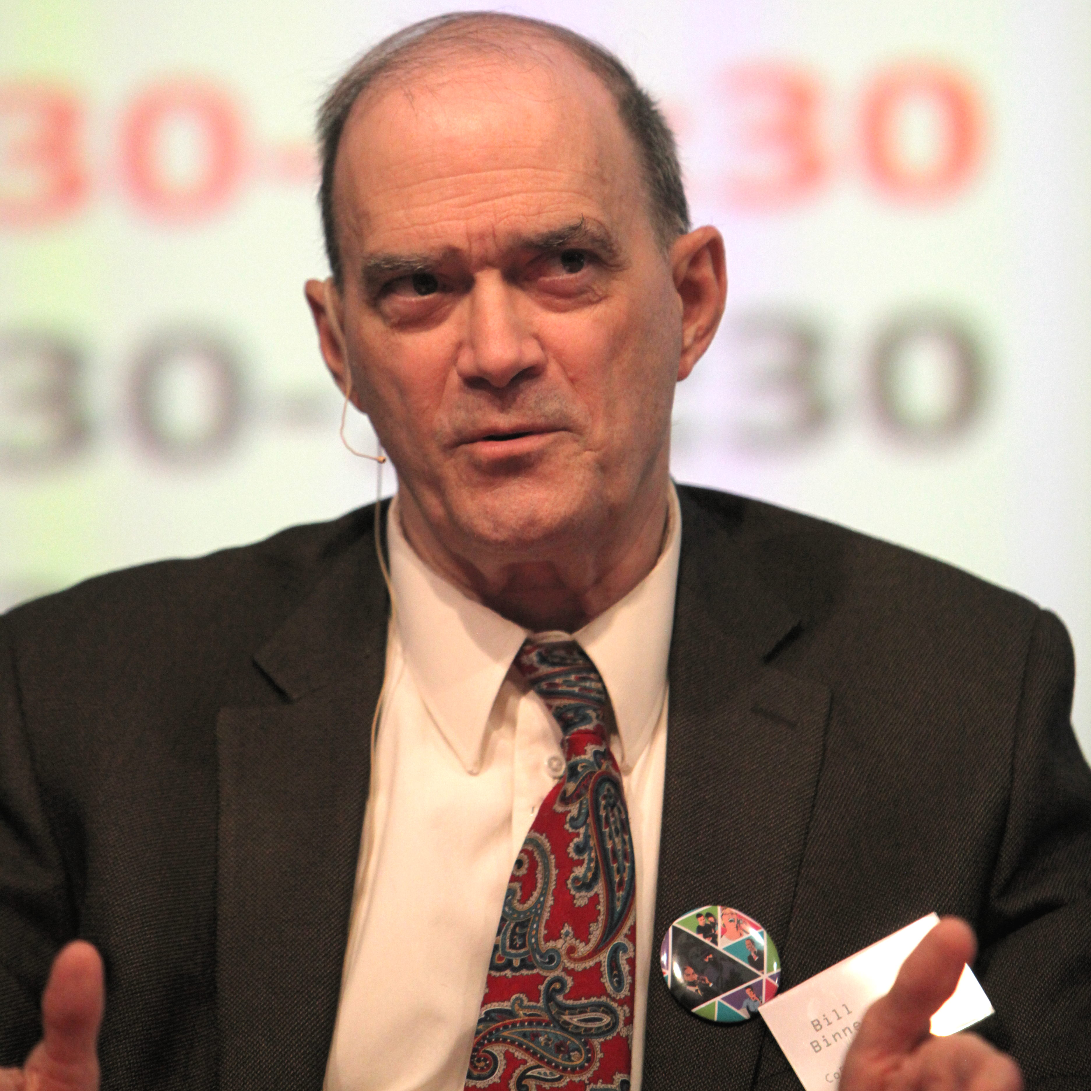 William Binney at the Congress on Privacy & Surveillance (CoPS213) at the École Polytechnique Fédérale de Lausanne.